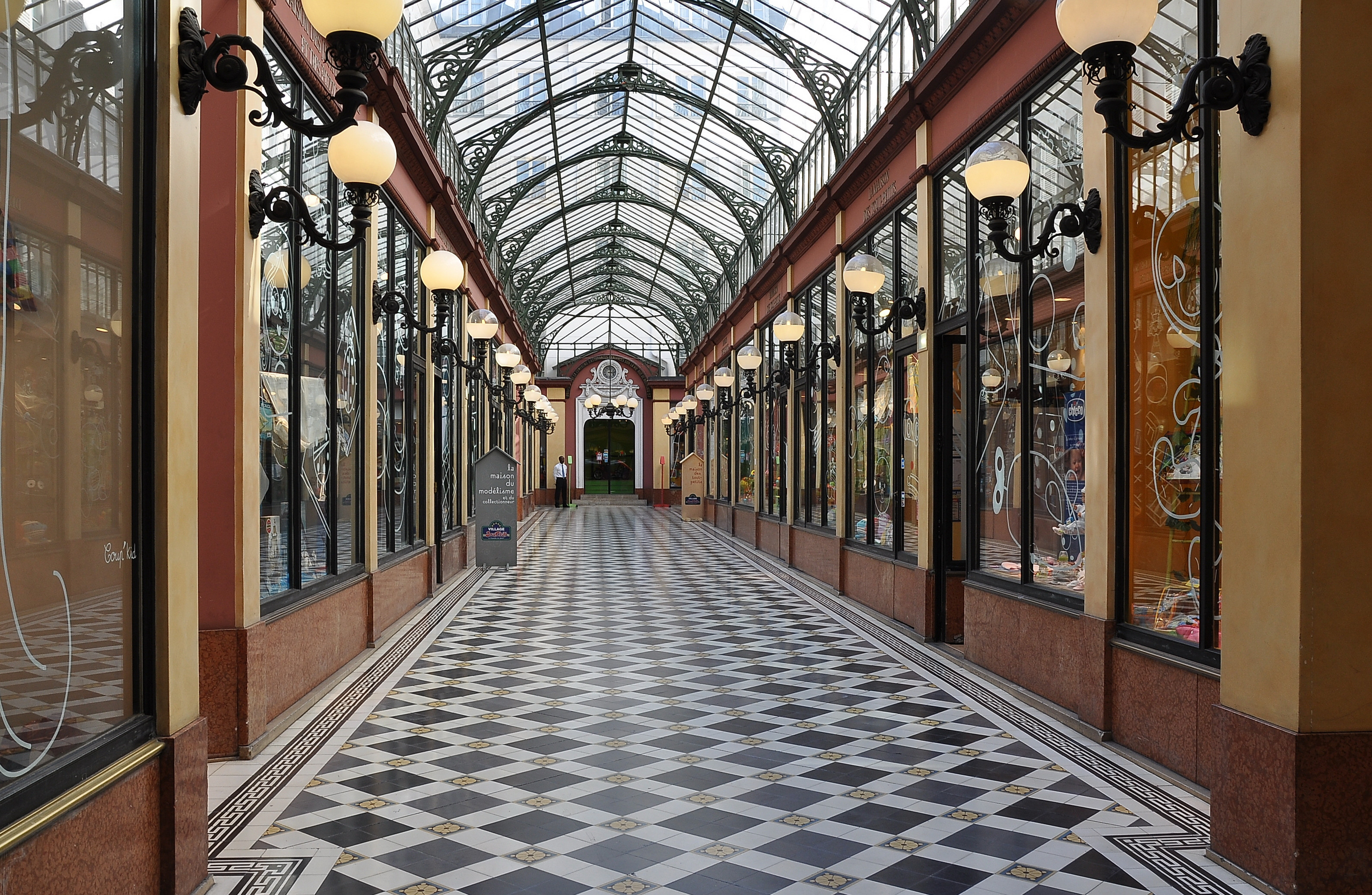 Passage des Princes, a mall listed as historical monument located in the 2nd arrondissement of Paris in France.